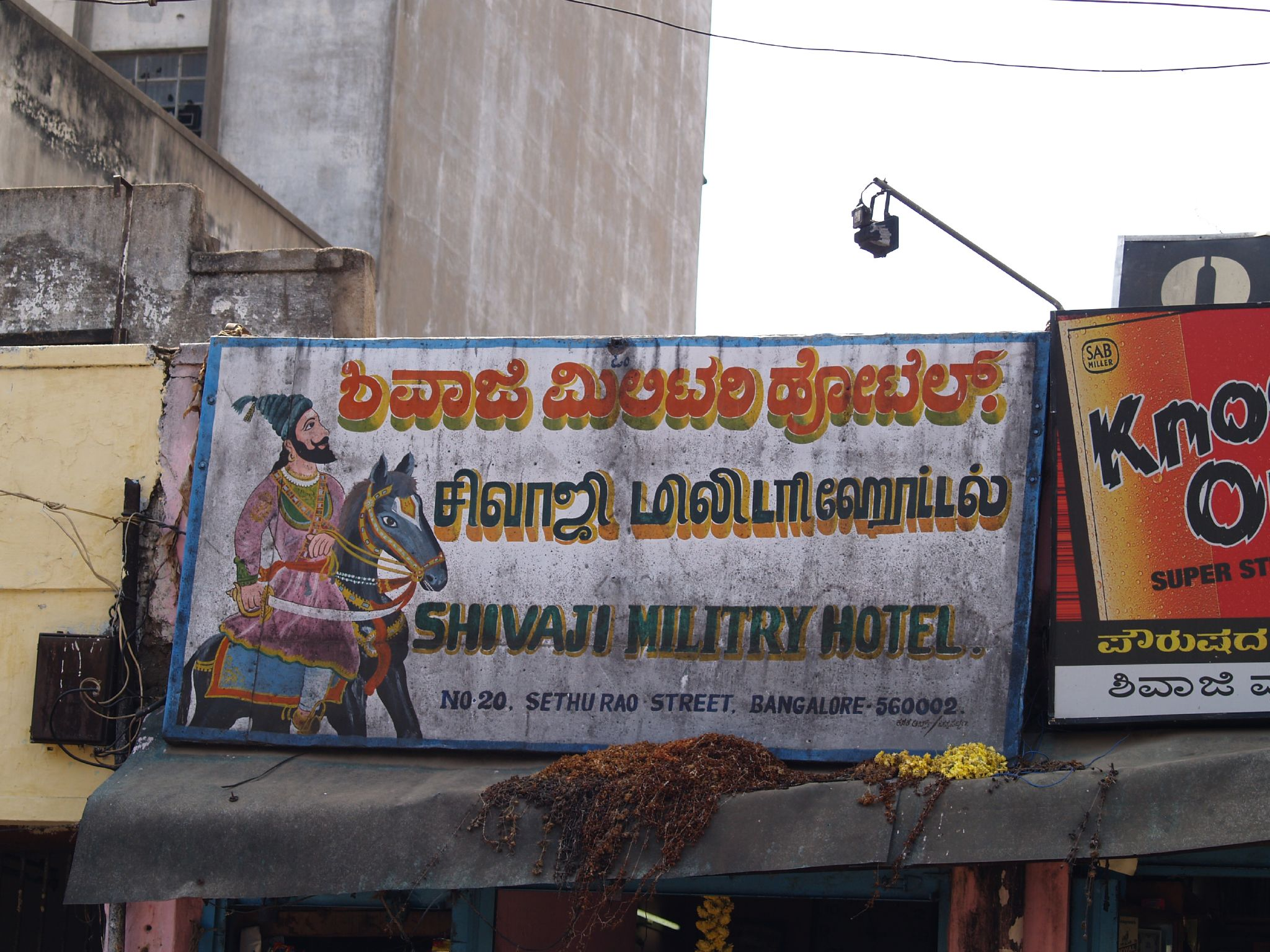 Shivaji hotel sign in Kannada, Tamil and English.